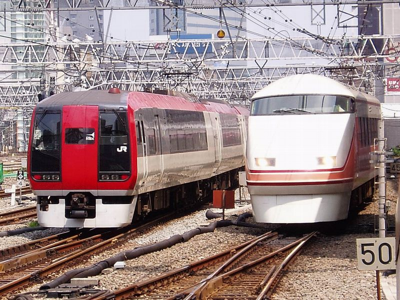 Left: East Japan Railway en:253 series "Narita Express" Right: Tobu Railway 100 series "SPACIA Kinugawa" Taken at Shinjuku Station